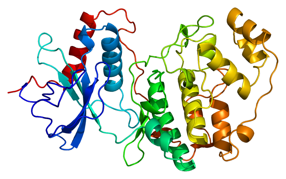 Structure of the MAPK1 protein. Based on PyMOL rendering of PDB 1erk.